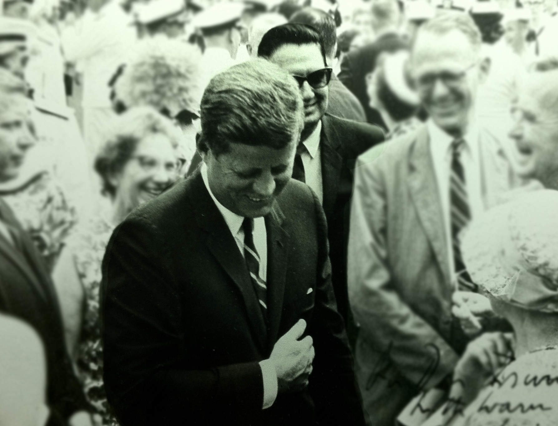 President John F. Kennedy and his former press secretary Bob Thompson, (over Kennedy's left shoulder).